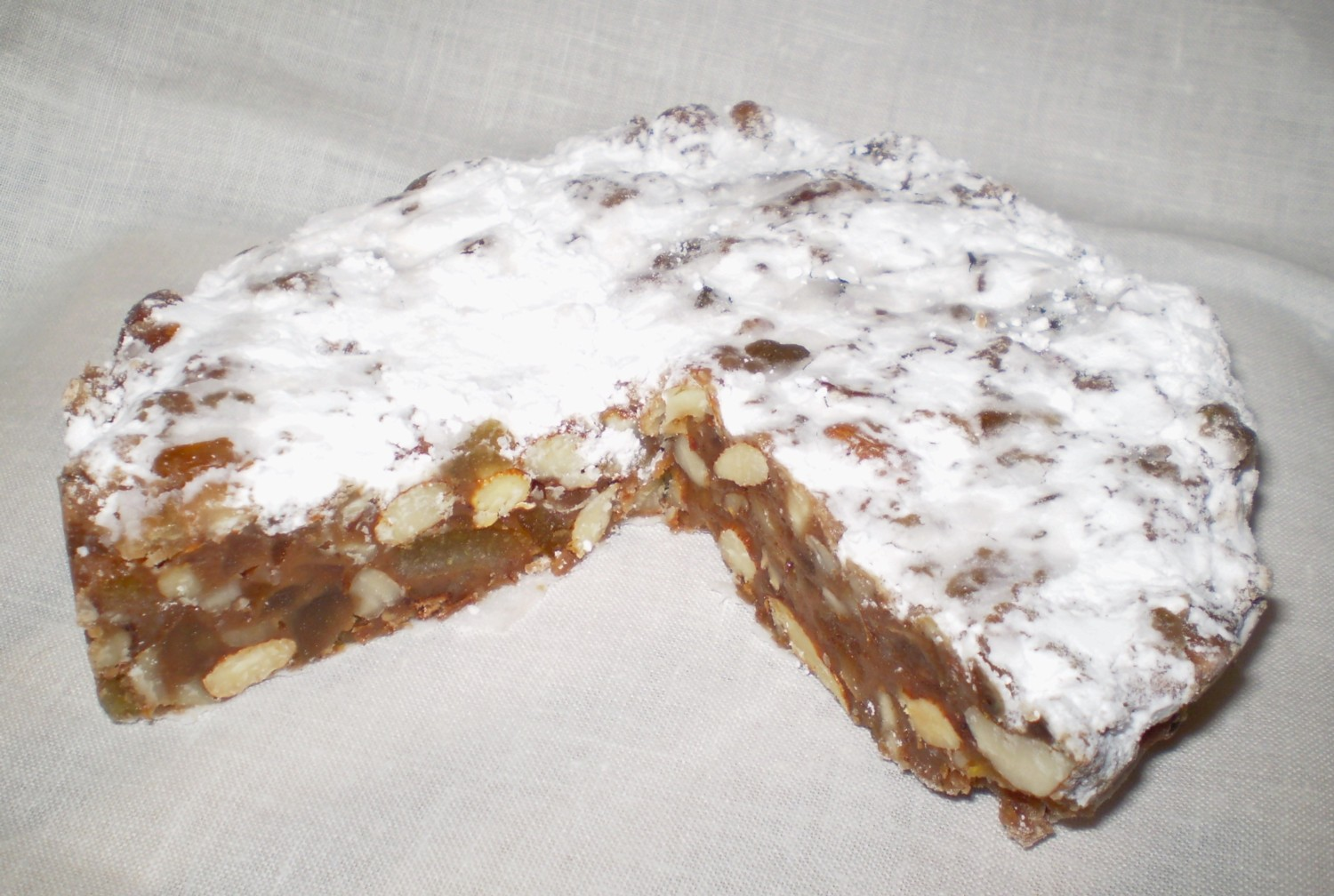 Panforte, traditional italian dessert from Siena. Own work (I have made the photo, my mother-in-law the panforte)